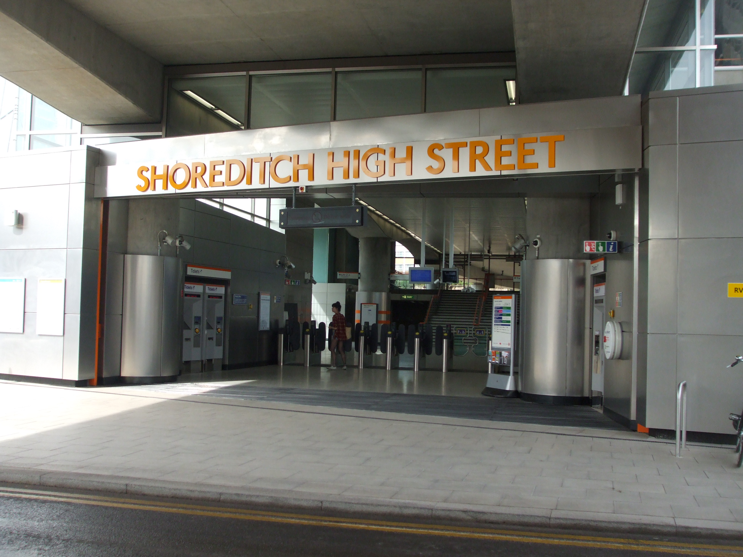 Shoreditch High Street station entrance close-up, a day after opening in April 2010